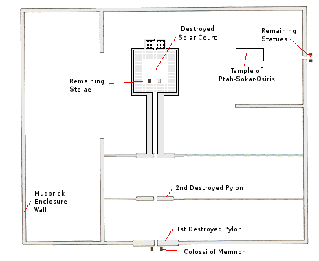 Plan of Kom el-Hetan (the Mortuary Temple of Amenhotep III).